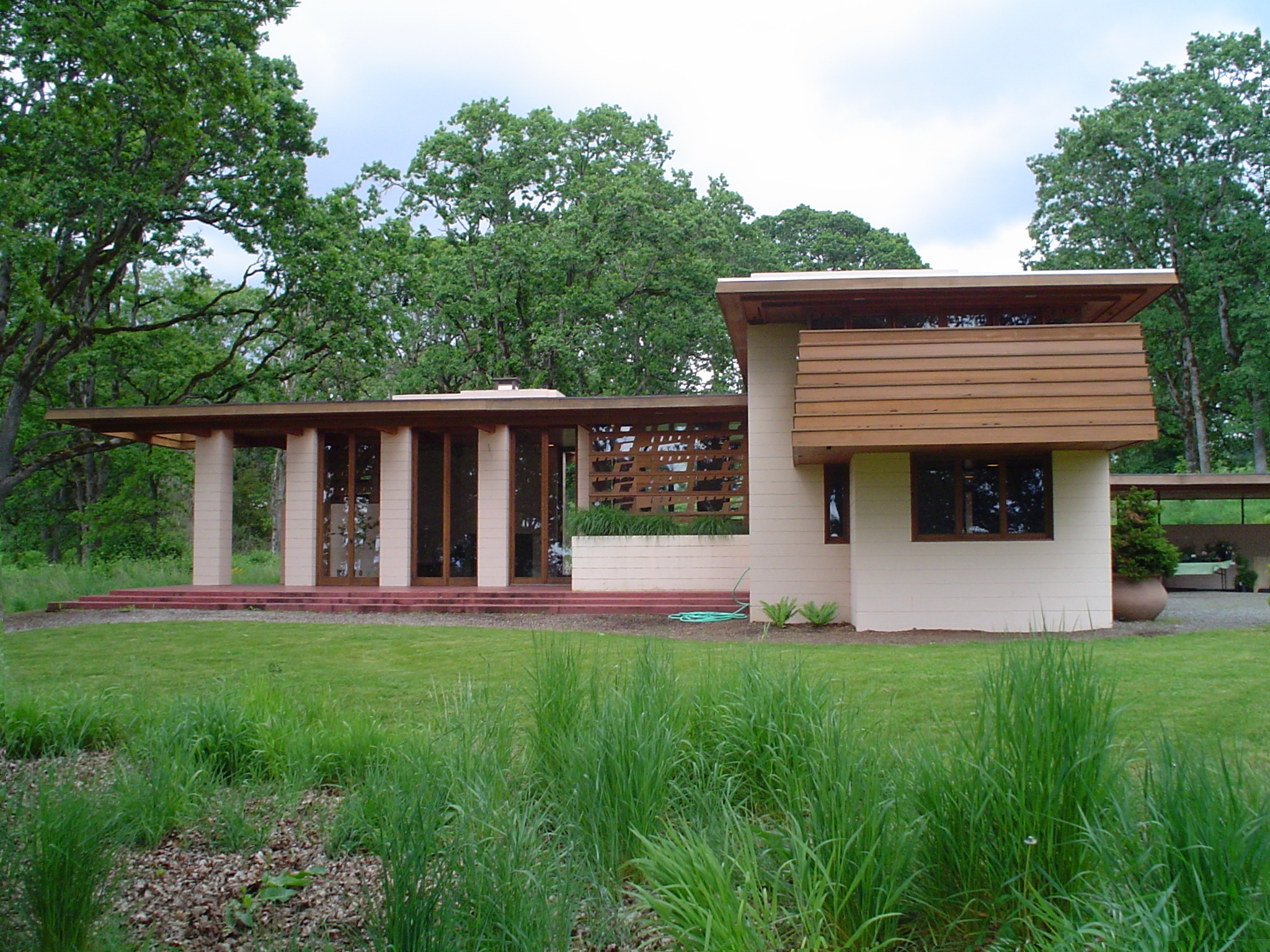 The Gordon House by architect Frank Lloyd Wright, located in Silverton, Oregon, United States.